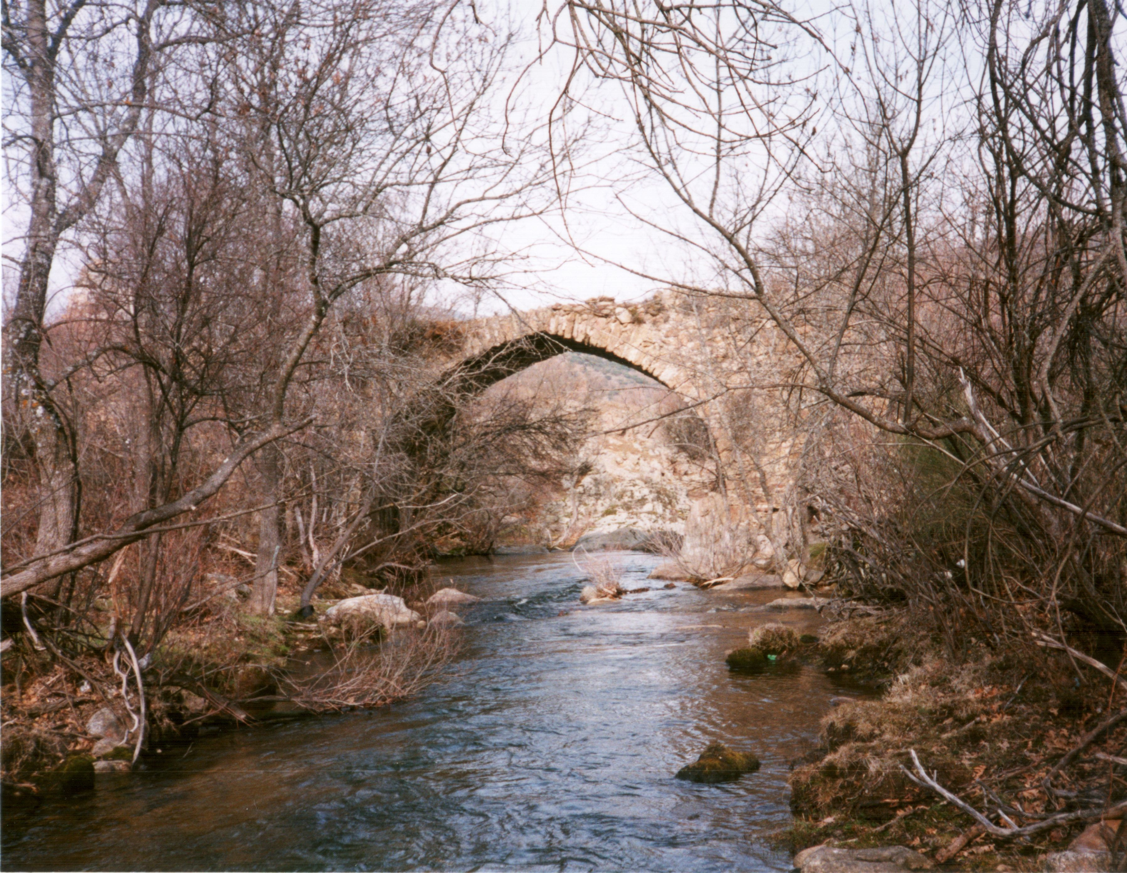 Bridge of Matafrailes, Canencia, Madrid (Spain).